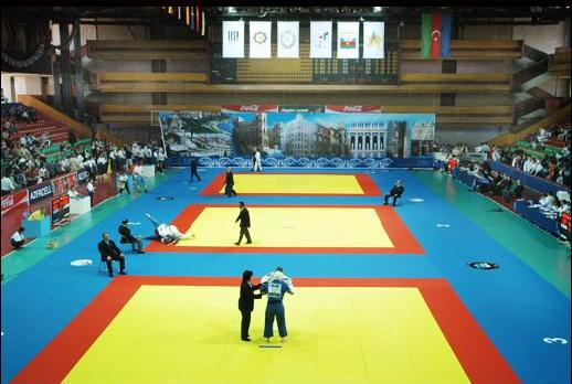 IBSA European Judo Championship 2007. Arena